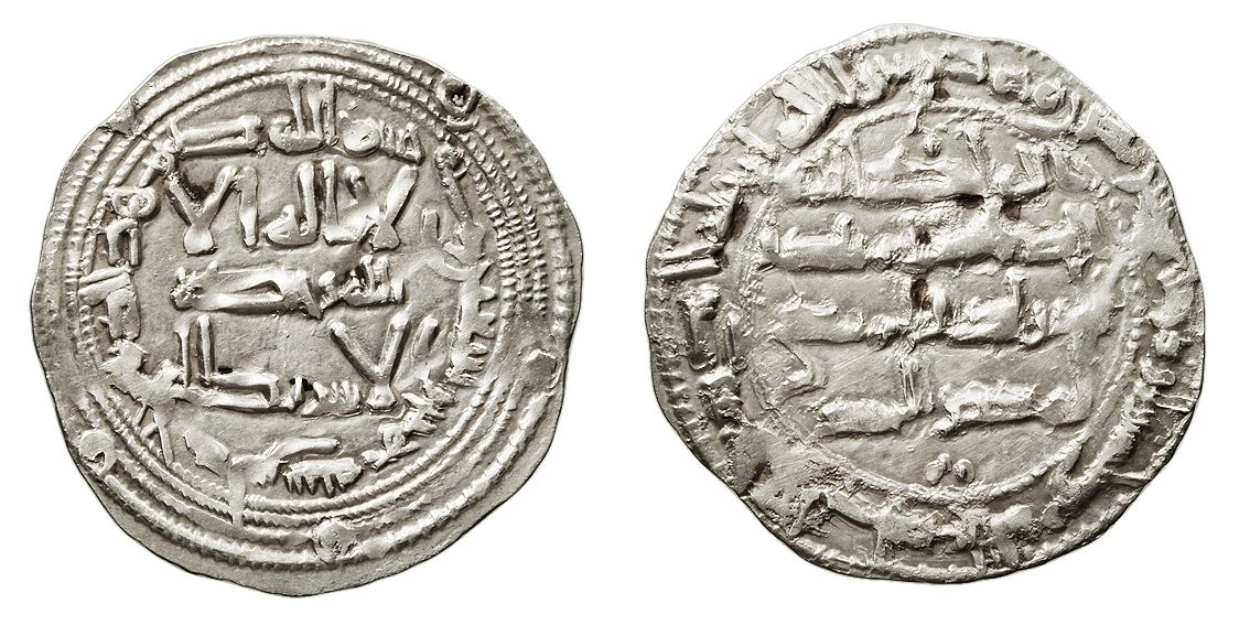 Dirham of Hisham I, emir of Cordoba. In silver. Year AH 175.